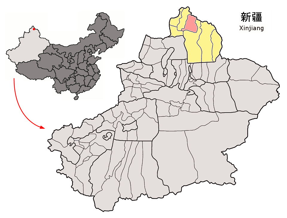 Location of Altay City (pink) and Altay Prefecture (yellow) within Xinjiang autonomous region of China Map drawn in september 2007 using various sources, mainly : Xinjiang Uygur autonomous region administrative regions GIS data: 1:1M, County level, 1990 Xinjiang Counties map from